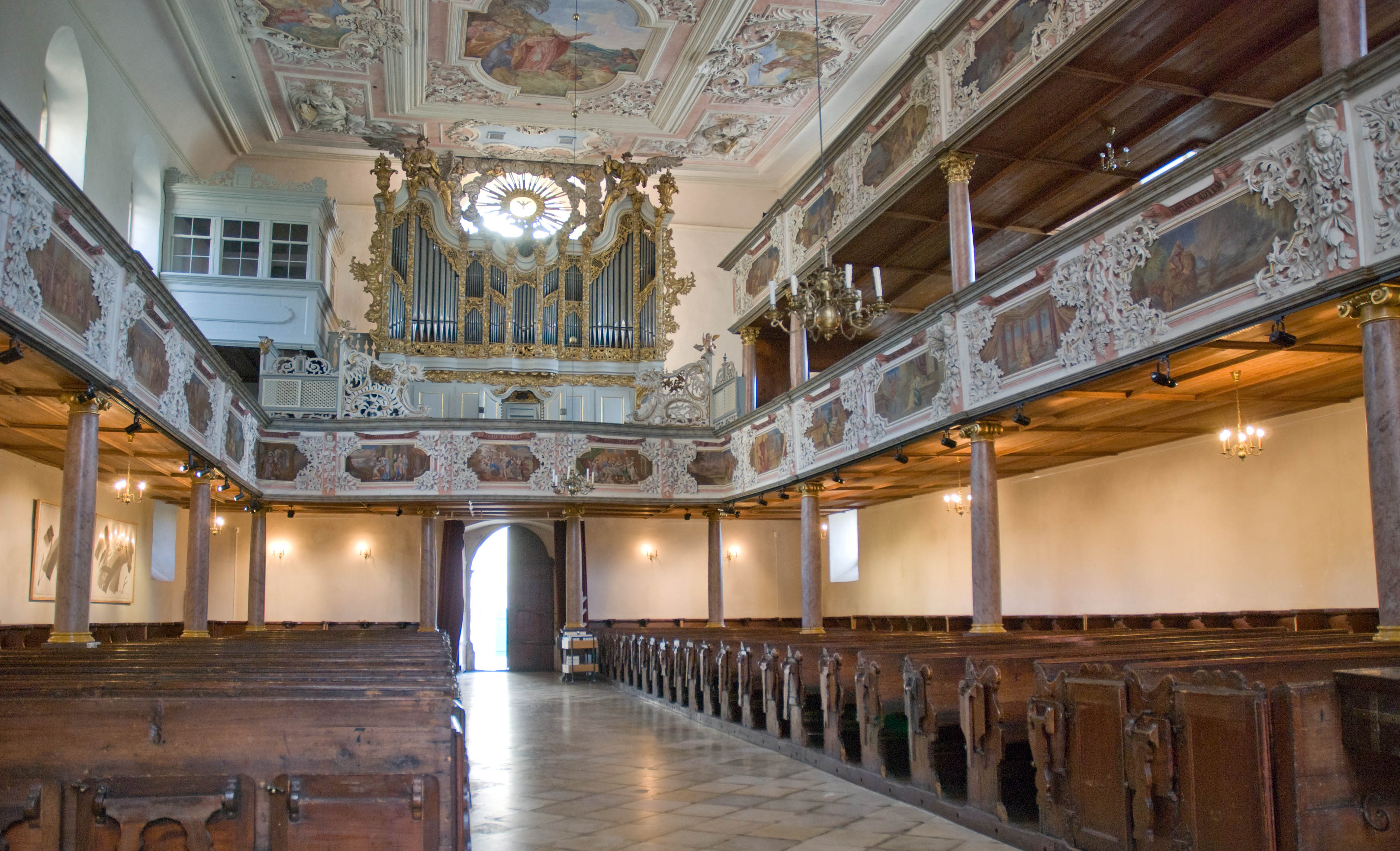 Organ of St Oswald Church, Regensburg, Germany. Built by Franz Jakob Spaeth, 1750.